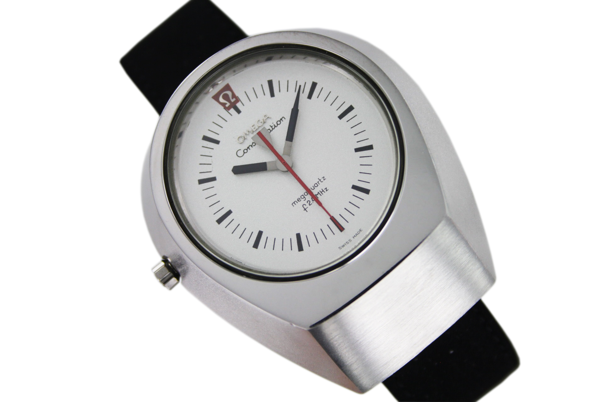 Omega Constellation Megaquartz F2.4 prototype, calibre 1500